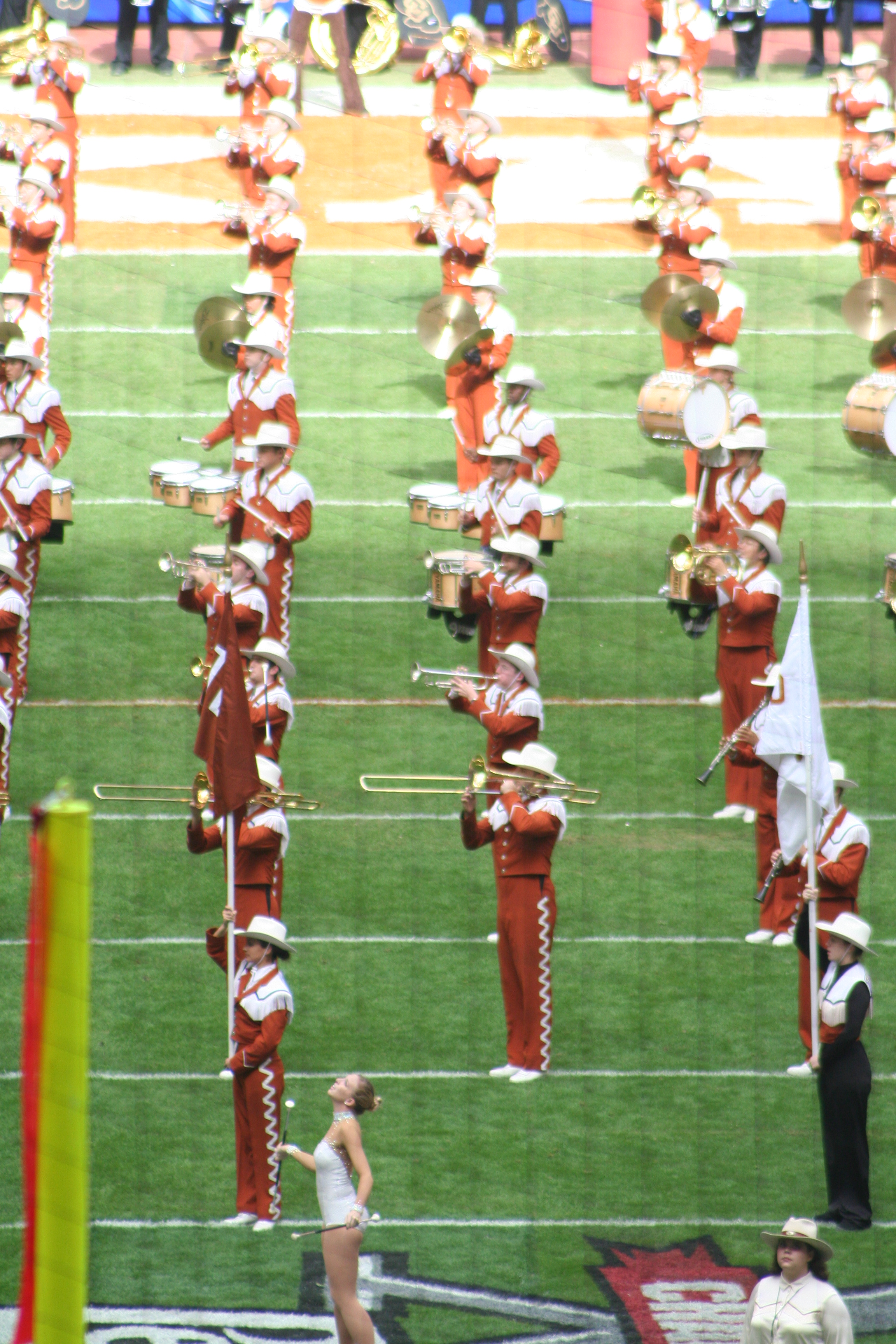 The University of Texas Longhorn Band Photo by Johntex 2005.